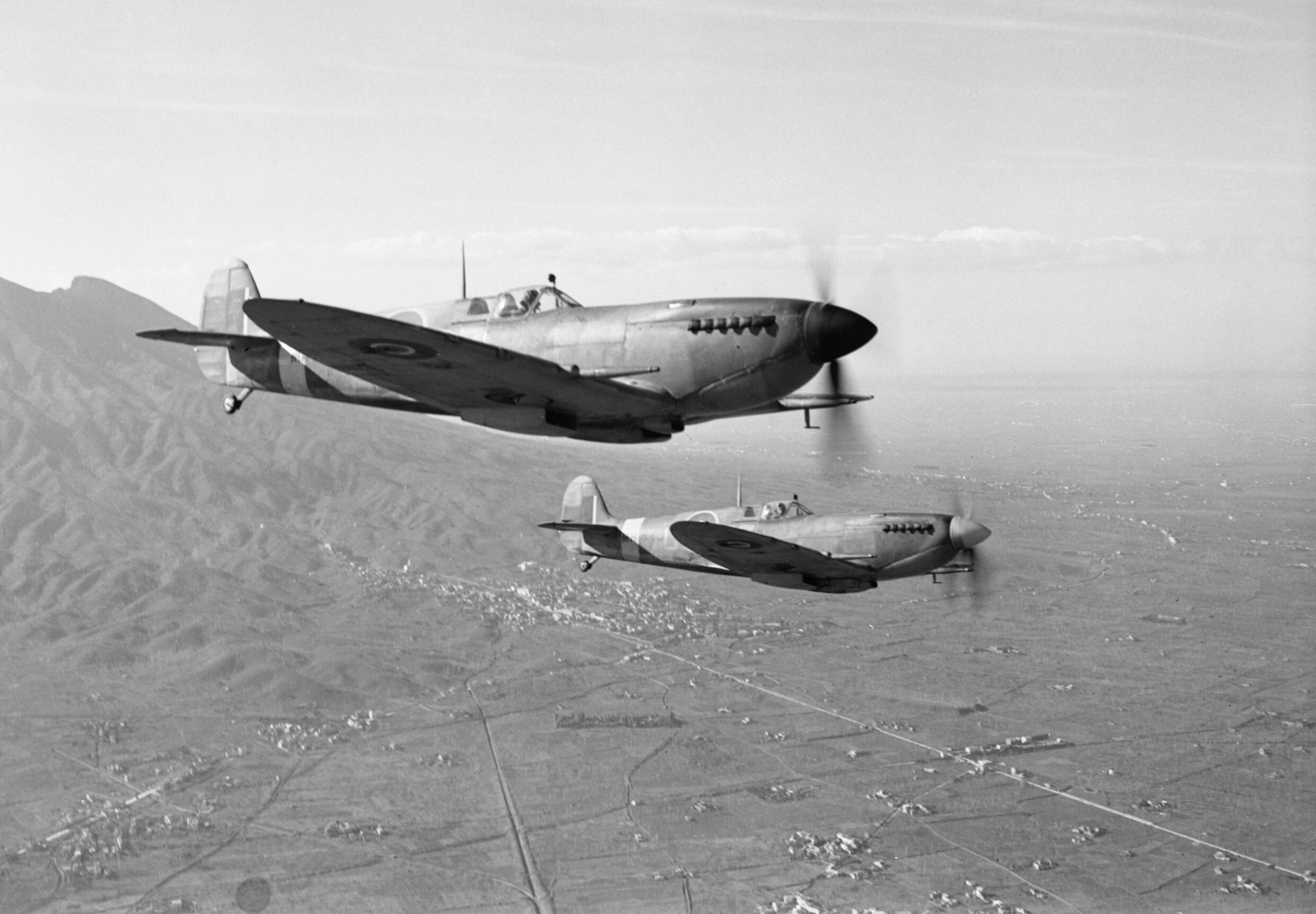 Supermarine Spitfire Mk IXs of No. 241 Squadron RAF return to their base at Madna, south-east of Campomarino, Italy, after a weather reconnaissance sortie over the Anzio beachhead, 29 January 1944. Two Supermarine Spitfire Mark IXs, MA425 ‘RZ-R’ (nearest) and MH635 ‘RZ-U’, of No 241 Squadron RAF, piloted by Flying Officers H Cogman and J V Macdonald respectively, returning to their base at Madna, south-east of Campomarino, Italy, after a weather reconnaissance sortie over the Anzio beachhead.